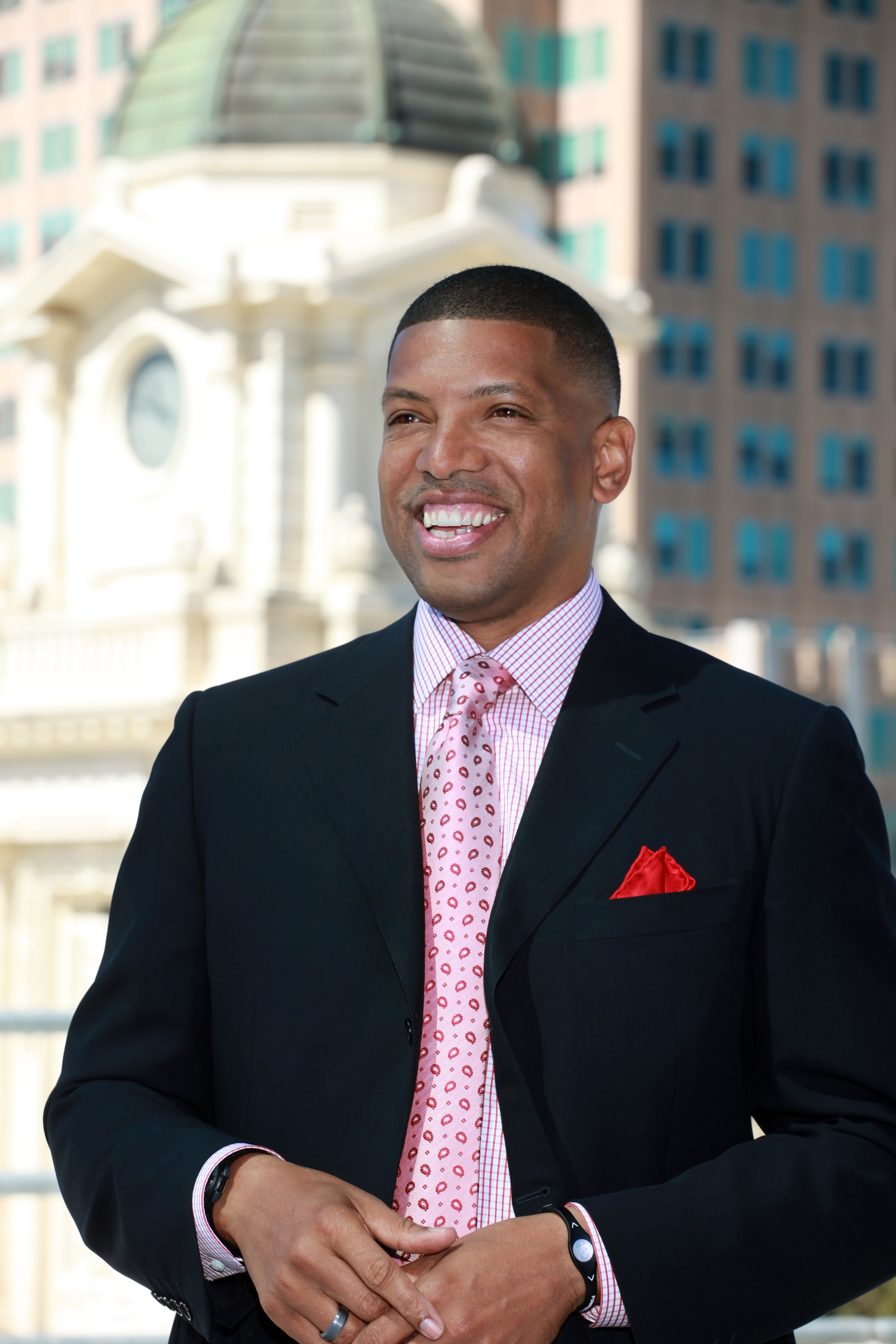 Kevin Johnson - Mayor of Sacramento, CA official photo. Set against the skyline of Sacramento